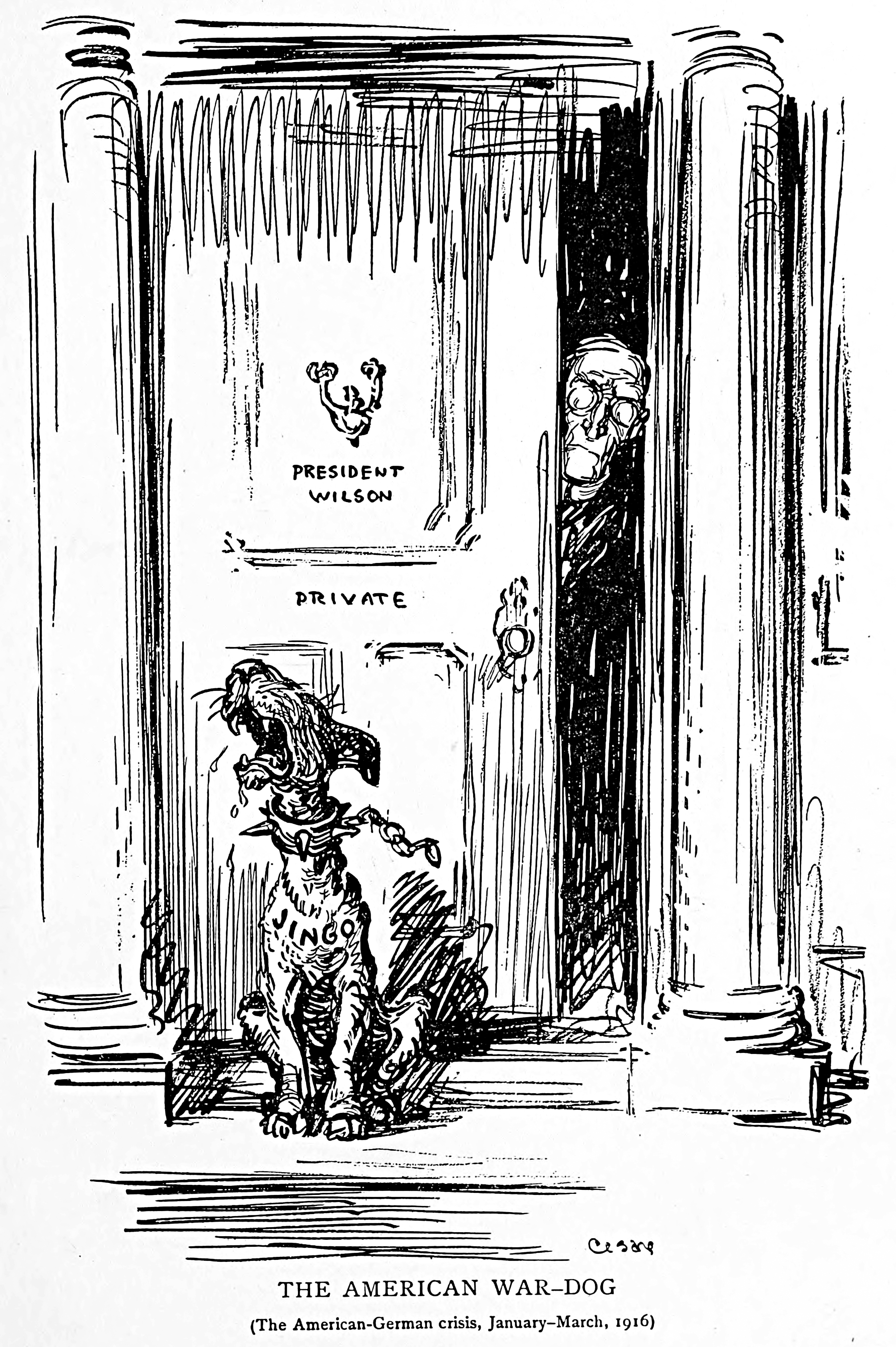 The American War-Dog. The American-German Crisis, January-March 1916. Depicts U.S. President Woodrow Wilson looking out his door at howling dog labeled "Jingo"; representing those in the U.S. eager to join the Great War against Germany contrary to the administration's policy of neutrality.